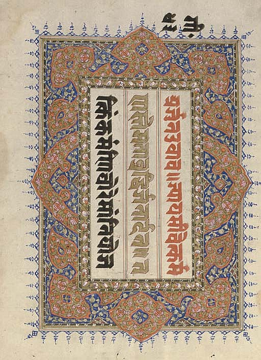 ILLUMINATED TITLE FOLIO FROM A MANUSCRIPT OF THE MAHABHARATA, KASHMIR, 19TH CENTURY Gouache heightened with gold on paper, with three lines of script in red, gold and black ink surrounded by illuminated margins- folio 7 x 9½in. (17.5 x 24.5cm.) Notes: Please note that most lots of Iranian origin are subject to U.S. trade restrictions which currently prohibit the import into the United States. Similar restrictions may apply in other countries.